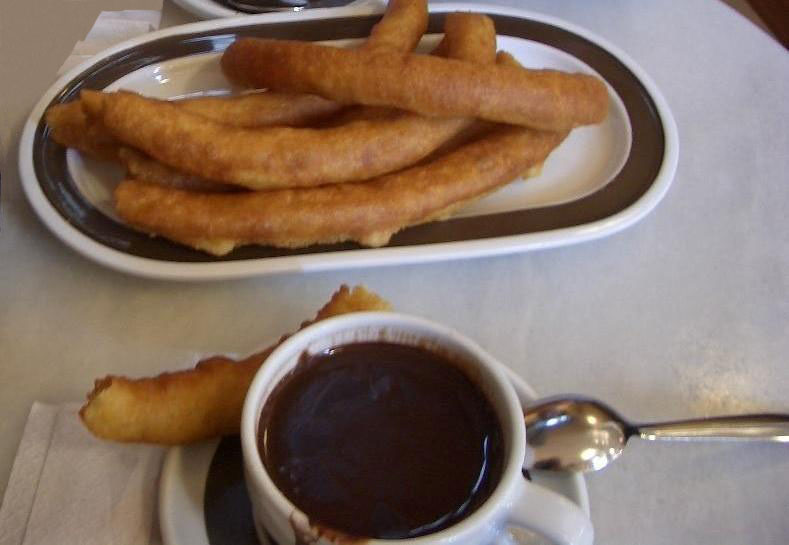 Spanish typical dish for breakfast or tea, a cup of chocolate and fritters (churros in Spanish).